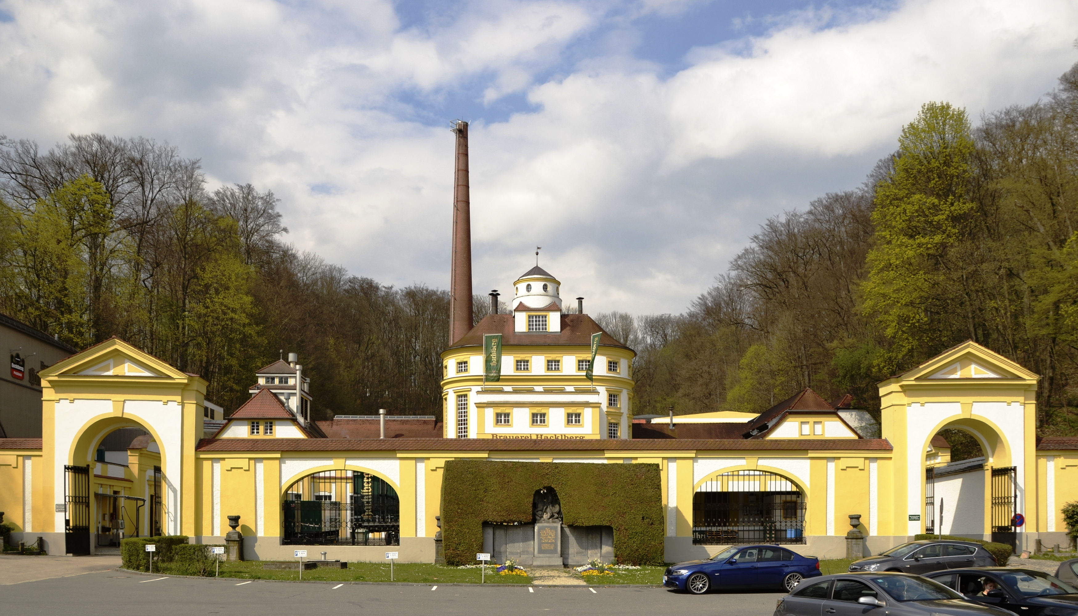 The production house with malt house of the Bavarian brewery Hacklberg in Passau.